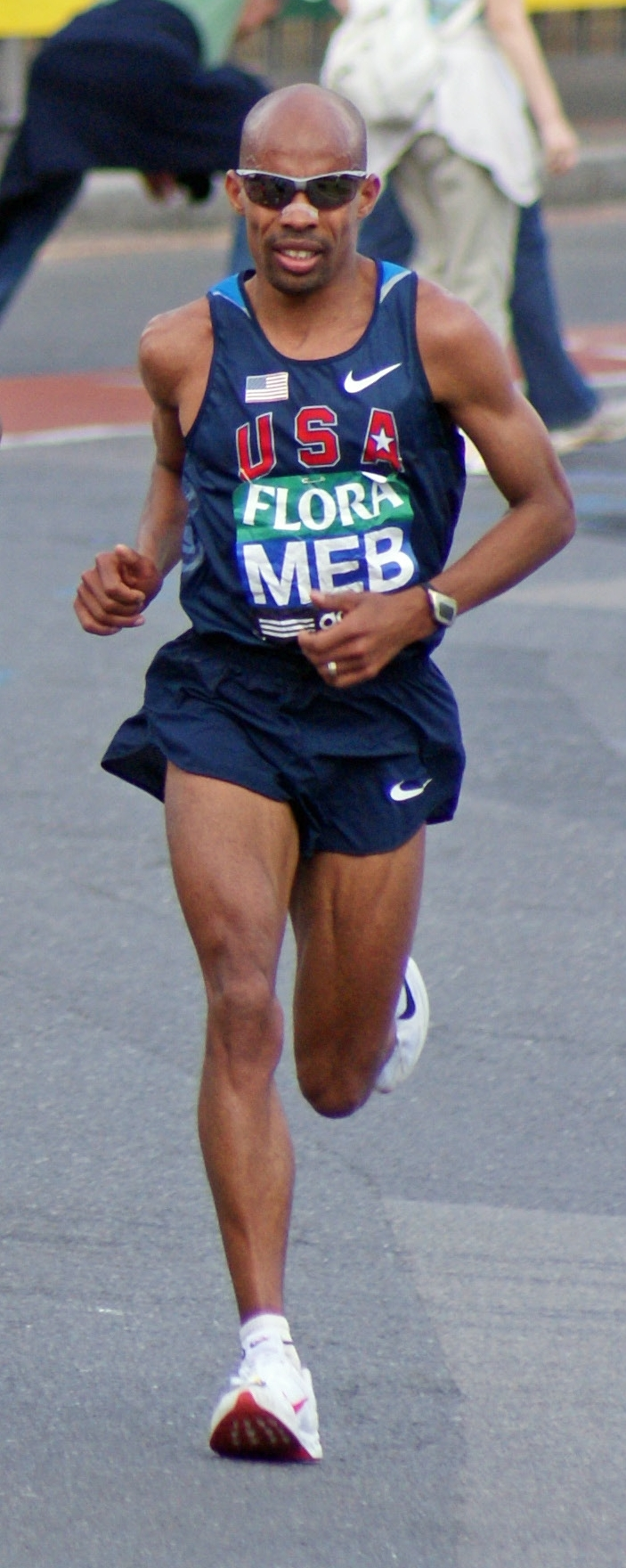 Meb Keflezighi of the United States at the 2009 London Marathon